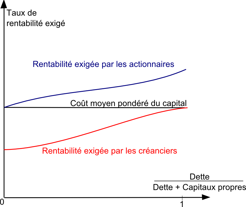 Description of the Modigliani-Miller theorem under no fiscality